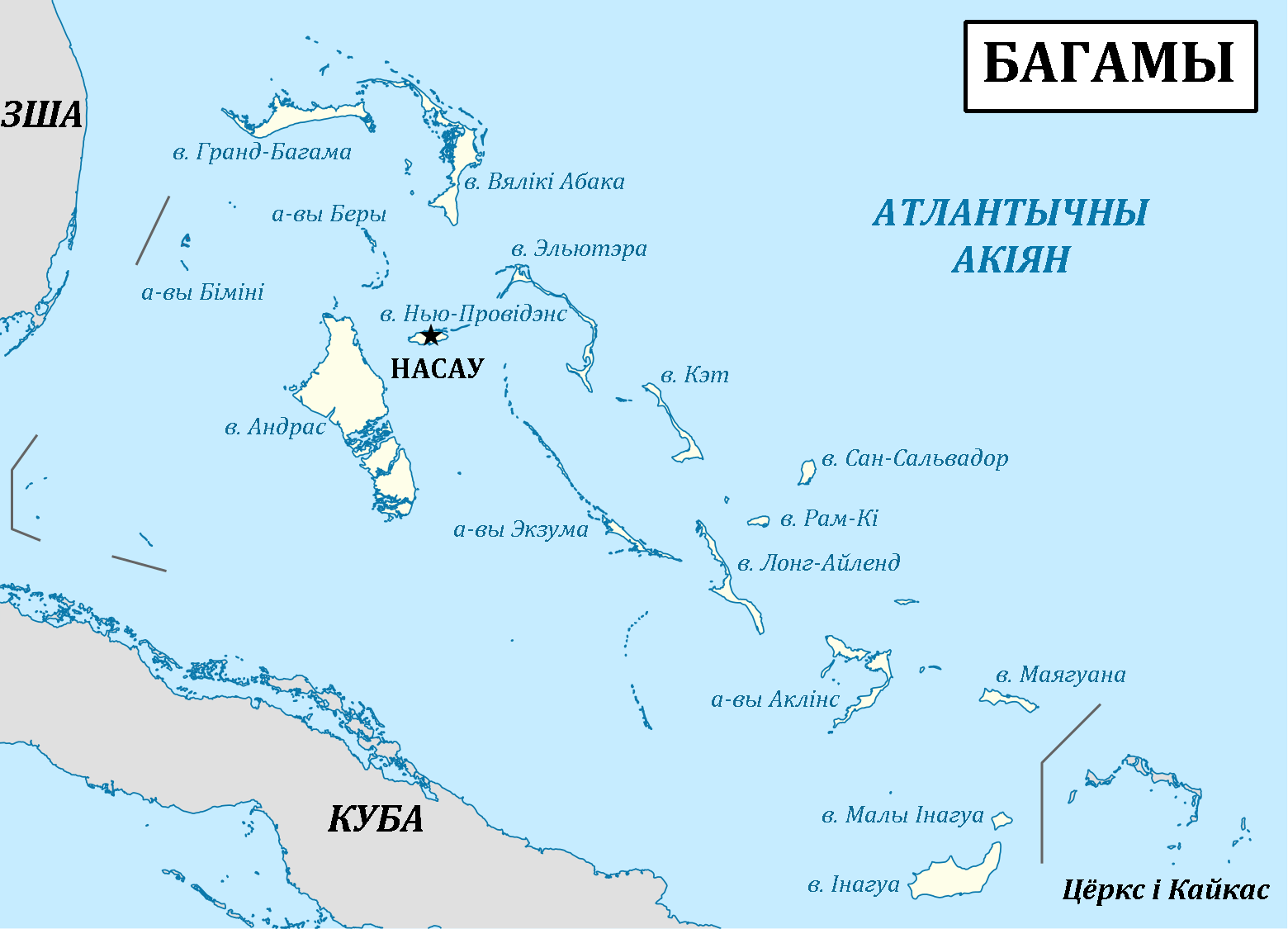 Map of Bahamas in Belarusian